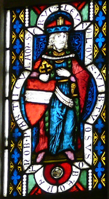 Leopold V of Babenberg